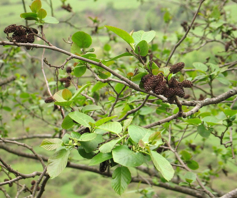 Alnus subcordata, in Azerbaijan, Lenkoran valley